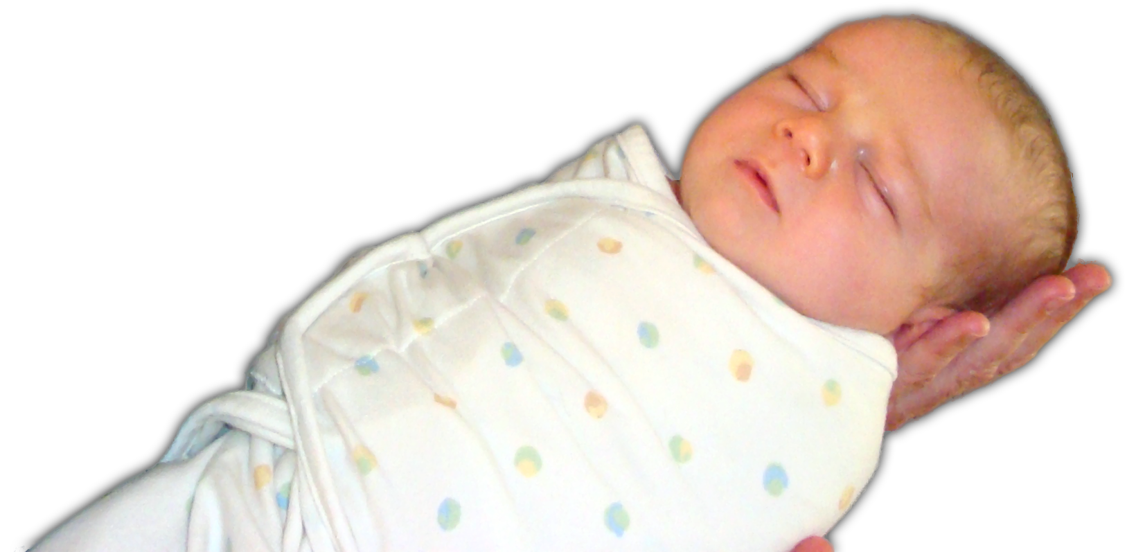 A 3 week old swaddled infant